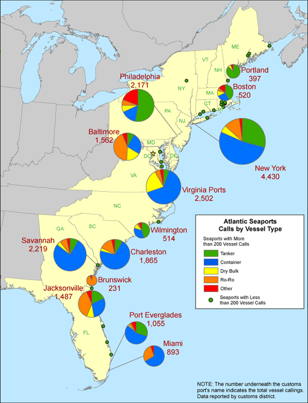 {Information